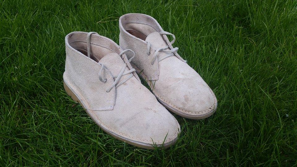 Veldskoen or "Vellies" made by the Bata Company, 2015